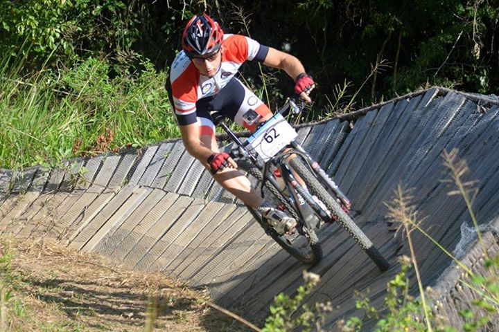 Brazilian Mountain Bike Rider